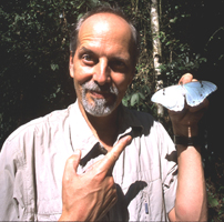 Photograph of Philip DeVries holding a Morpho butterfly